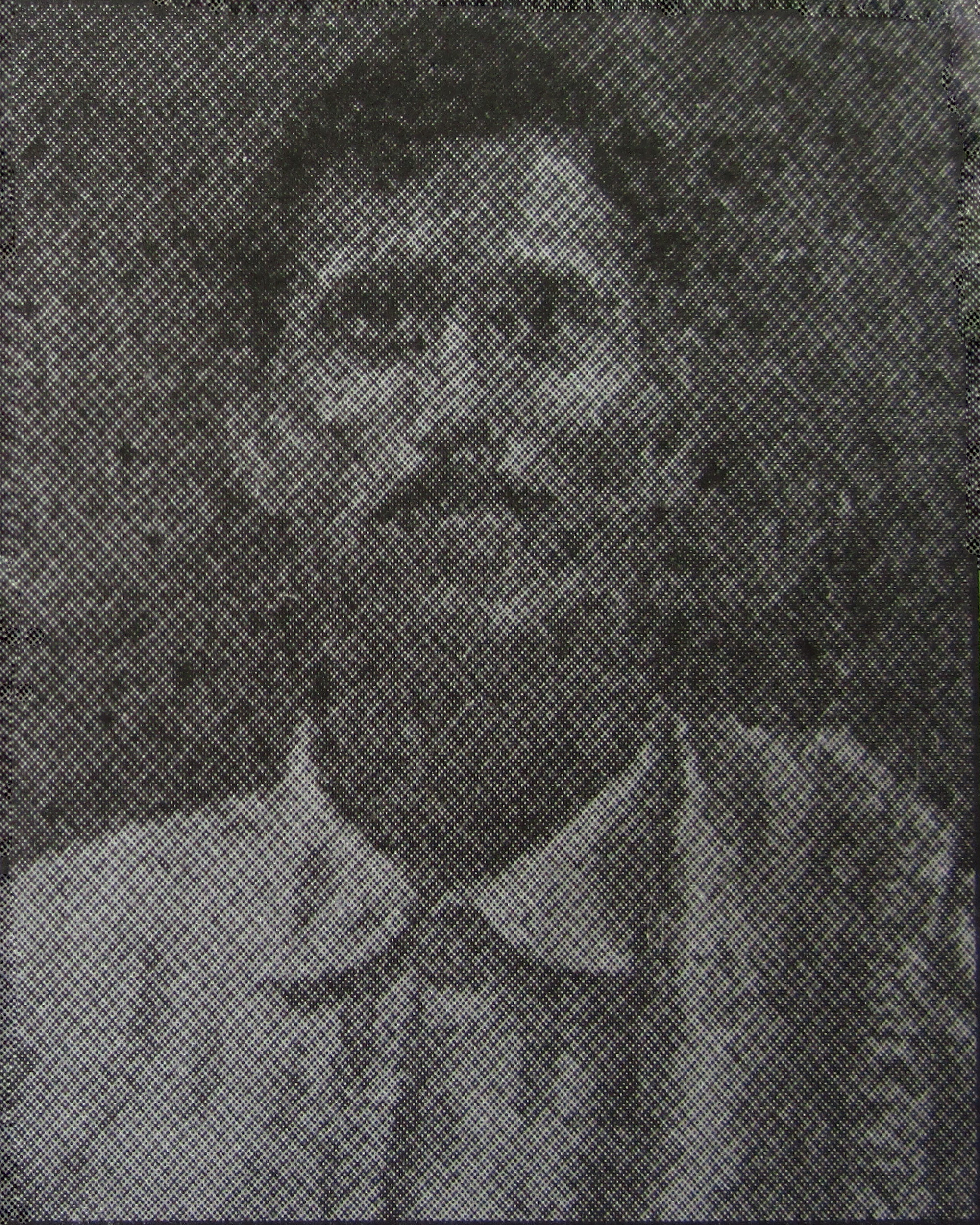 Sanjibchandra Roy